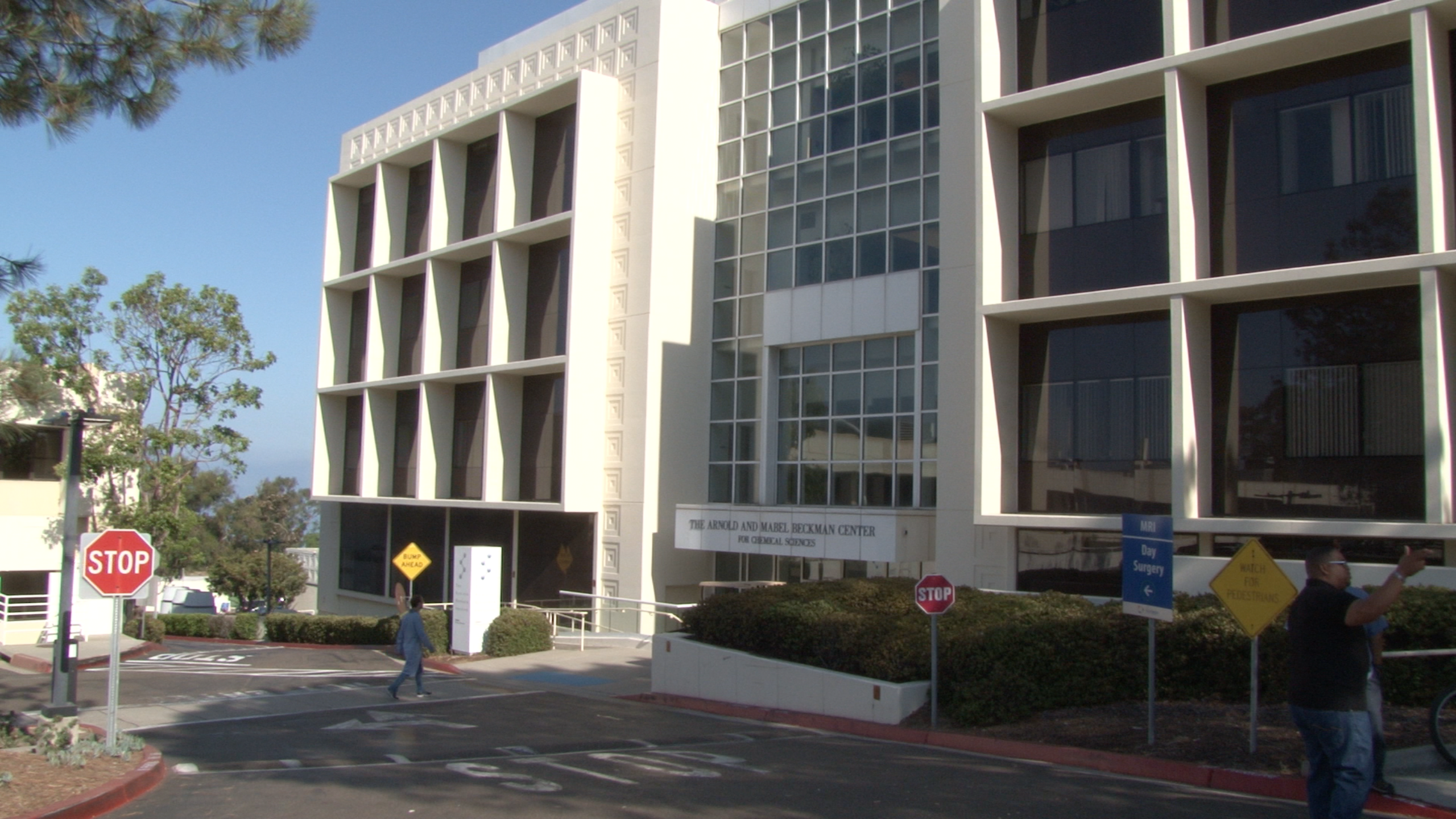 The exterior of The Scripps Research Institute's Beckman Center for Chemical Sciences in La Jolla, CA